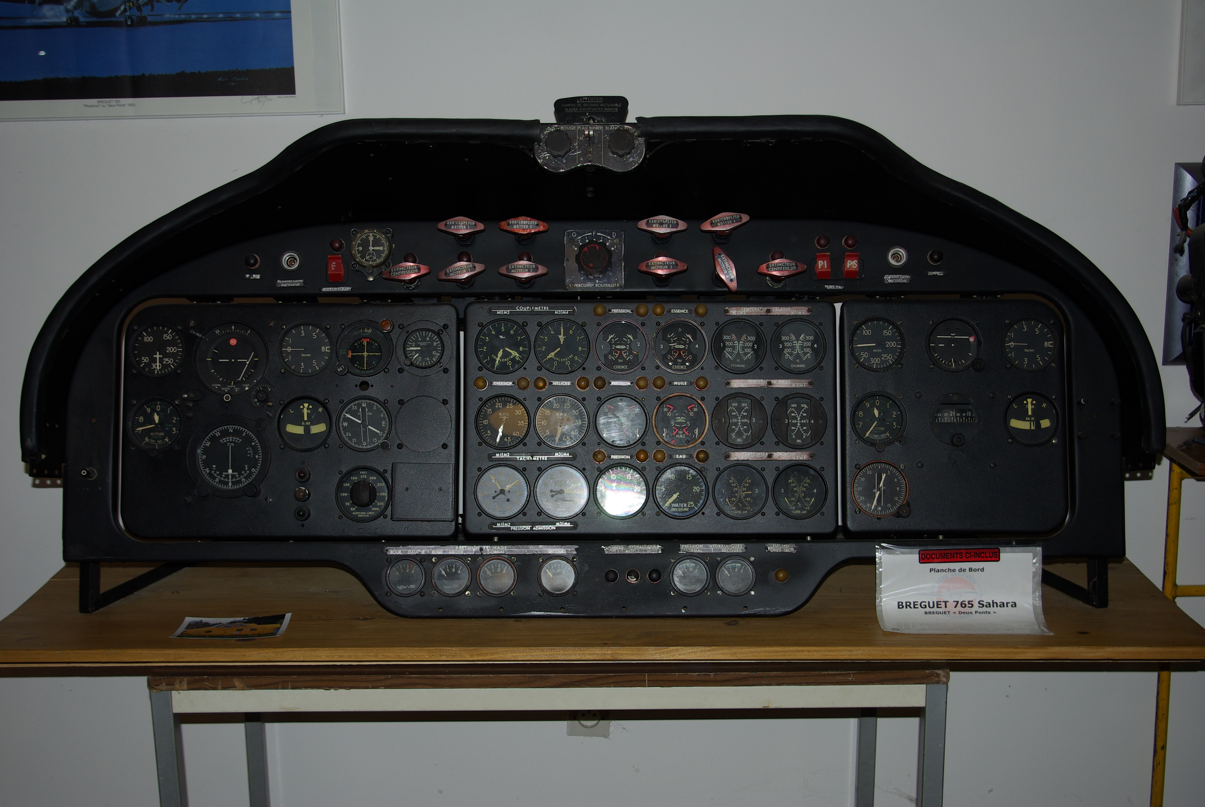 Dashboard of Breguet Br.765 Sahara